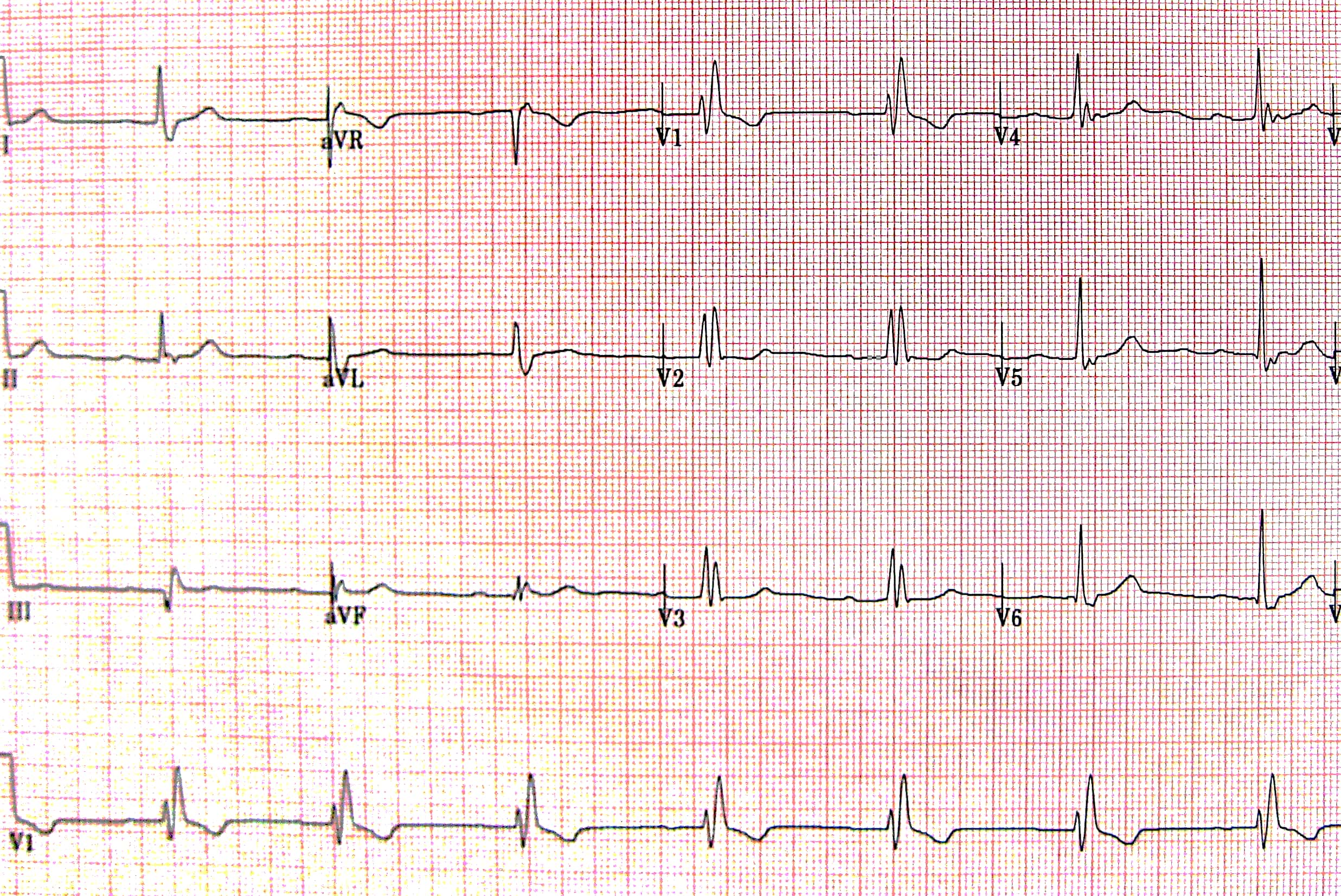 A RBBB